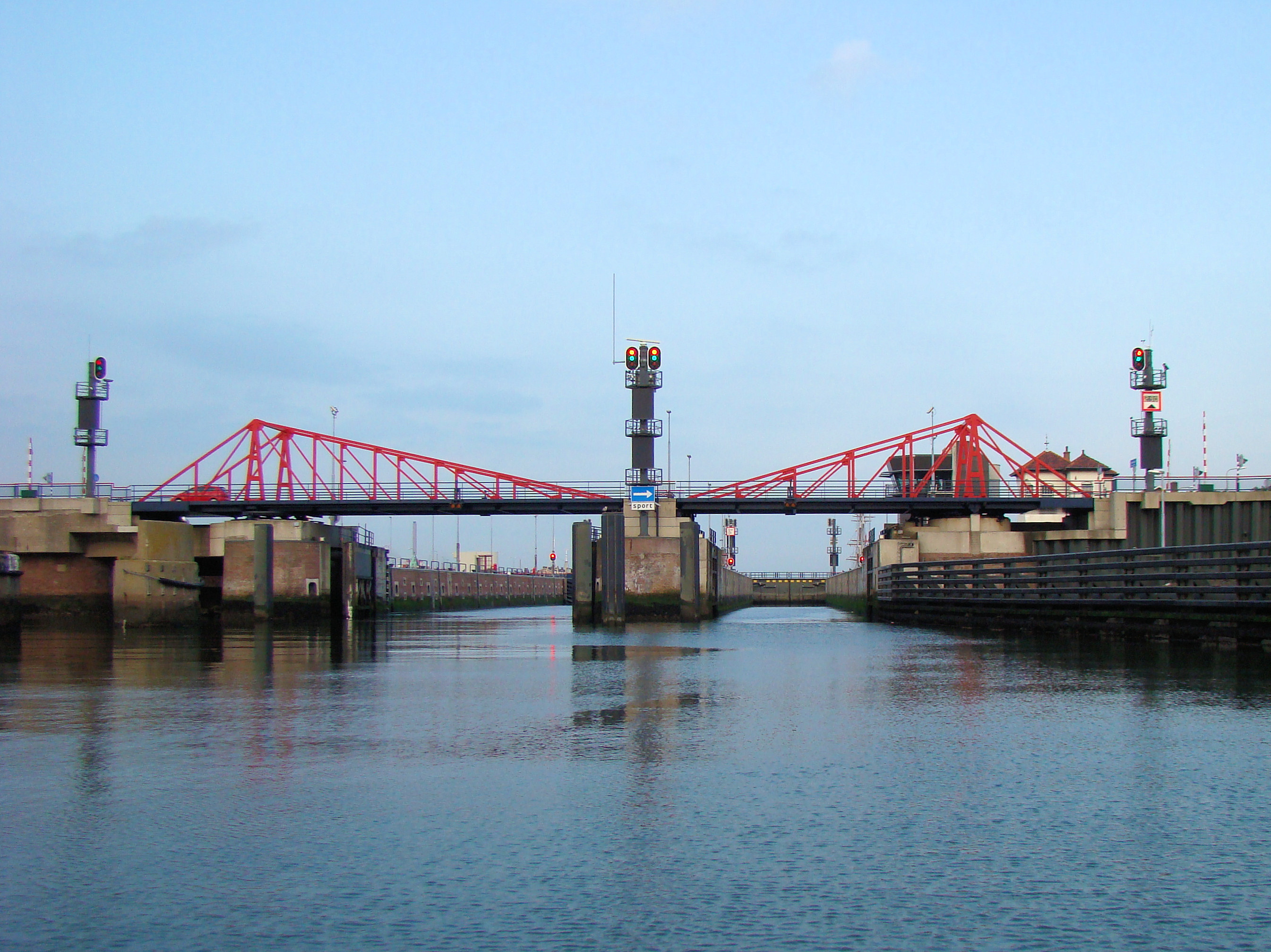 Locks for yachts and inland-vessels